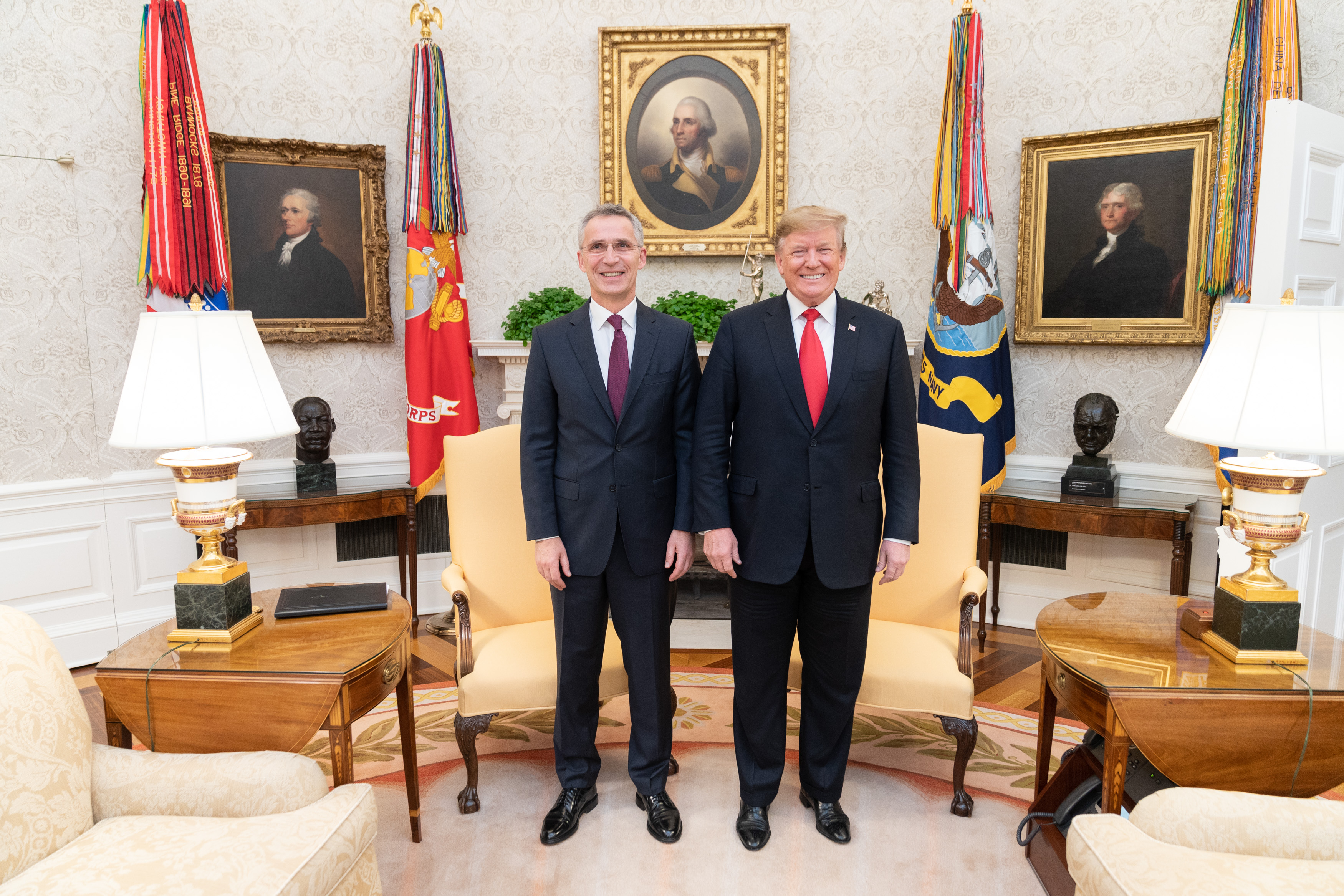 President Donald J. Trump meets with NATO Secretary General Jens Stoltenberg Tuesday, April 2, 2019, in the Oval Office of the White House. (Official White House Photo by Shealah Craighead)